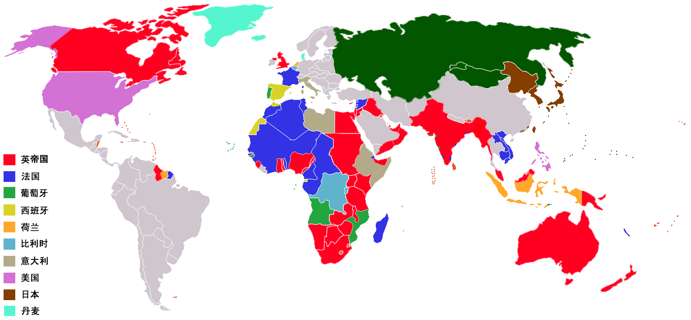 Based on the original map from en.wikipedia: Colonization and imperialism in 1945. Borders modified by Goode's World Atlas, Rand & McNally, Chicago, 1933.